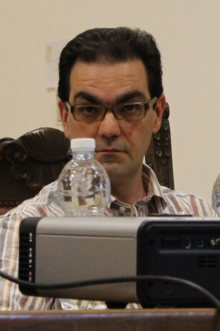 Albissola Comics 2013, May 4th-5th 2013, Albissola Marina, Savona, Italy